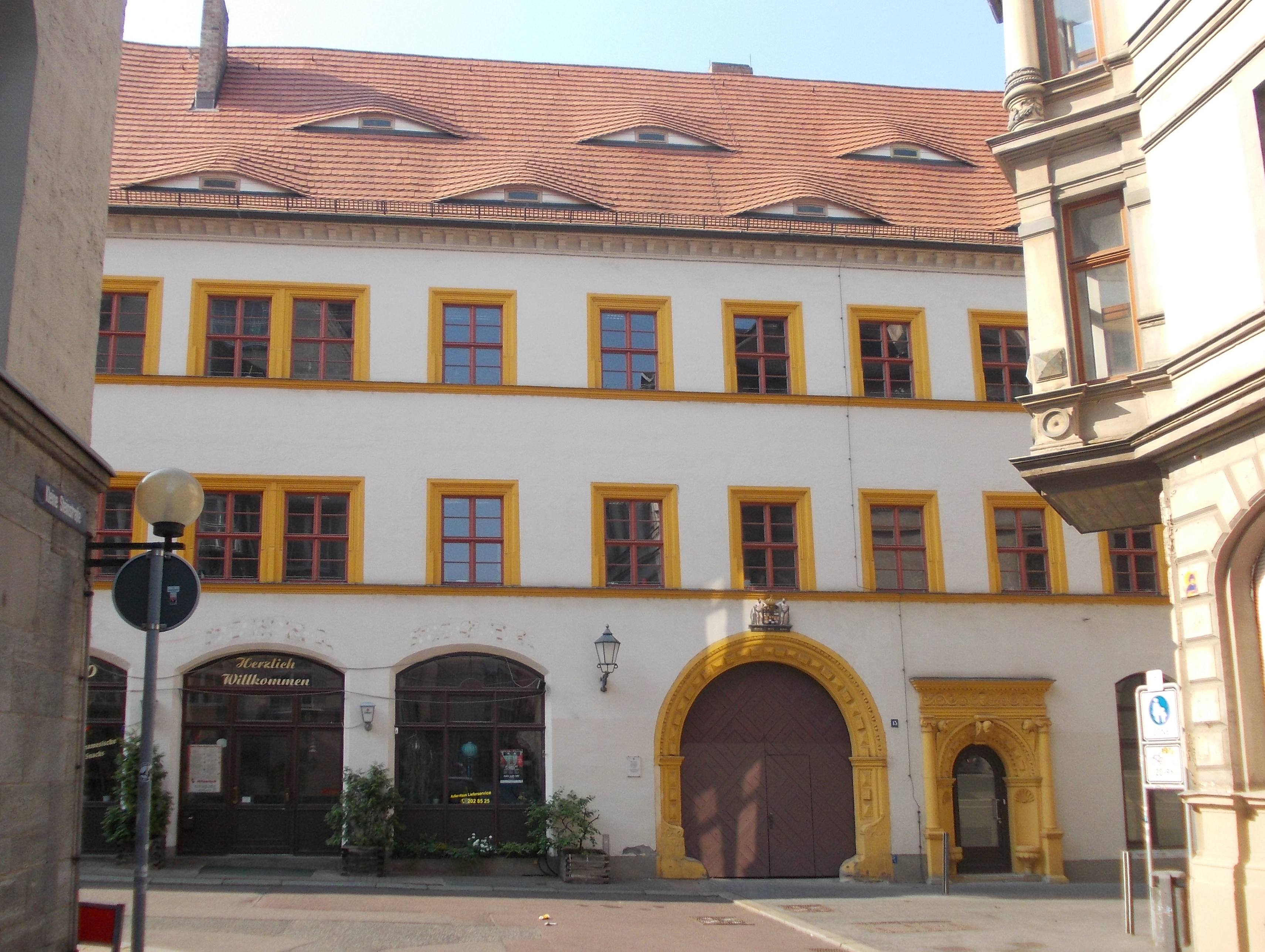 Von Jena's Ladies Foundation in Halle/Saale (Saxony-Anhalt)